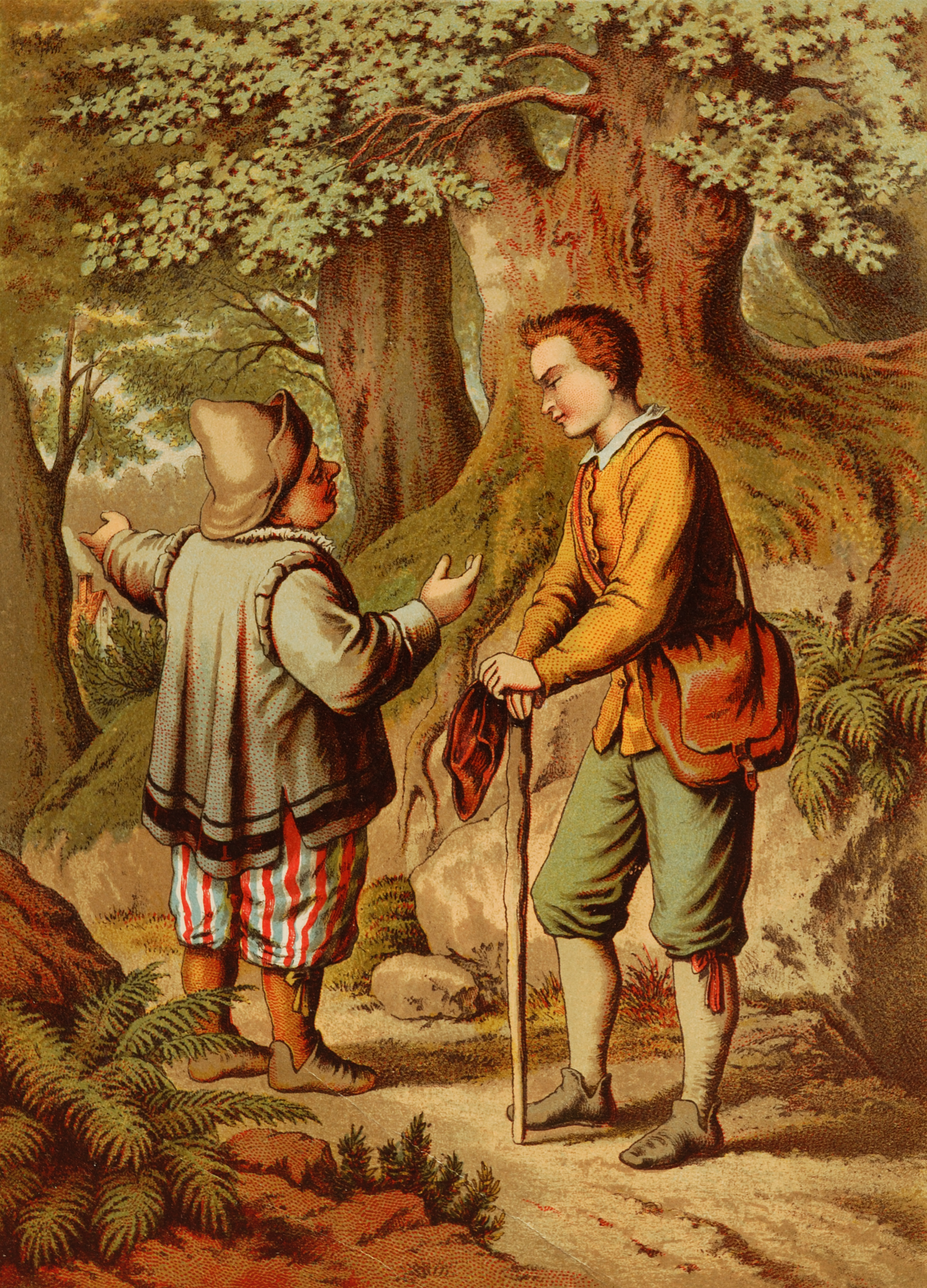 German fairy tale Tischlein deck dich! Eselein streck dich! Knüppel aus dem Sack!, illustration by Heinrich Leutemann or Carl Offterdinger